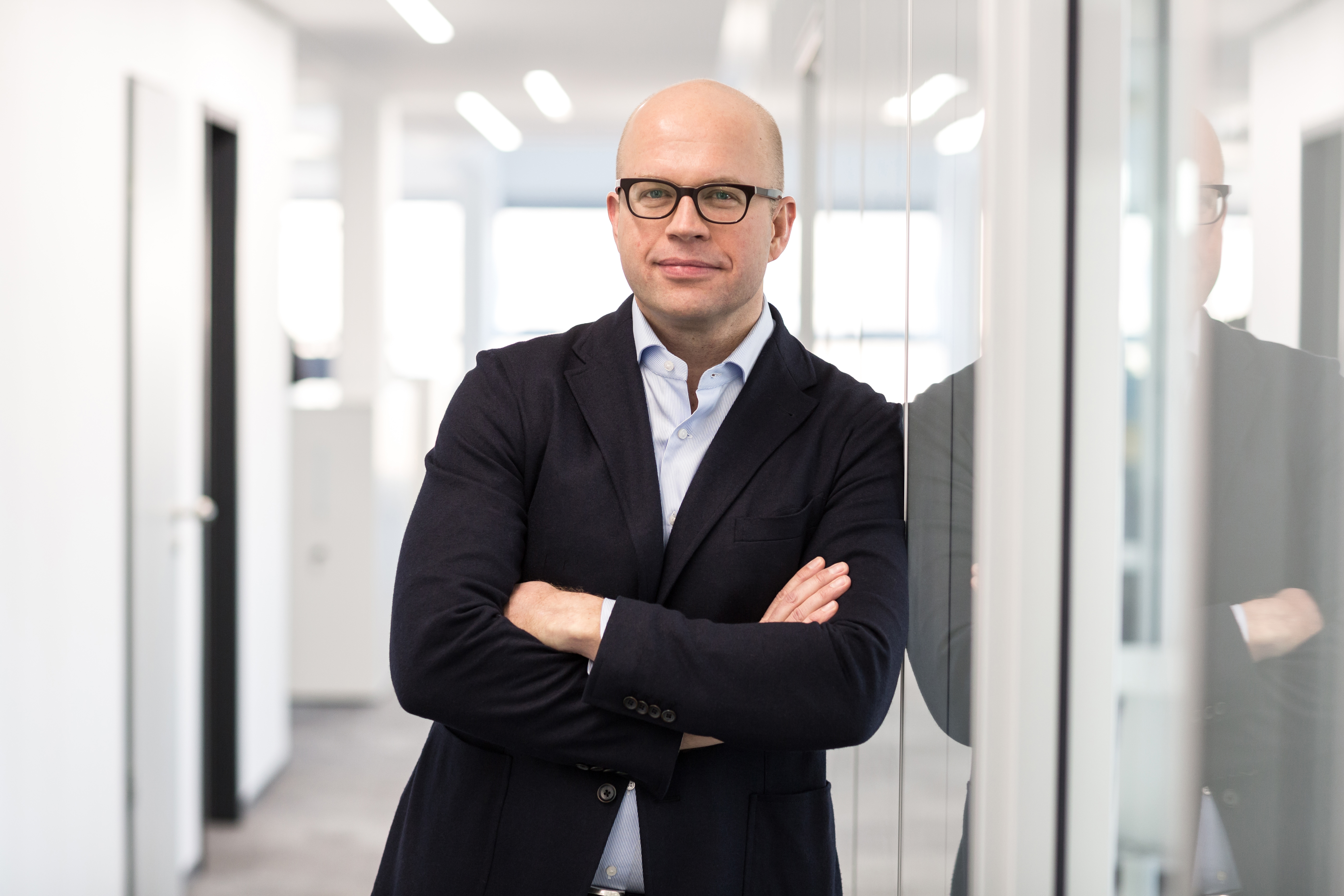 Carsten Unbehaun, CEO of Haglöfs, former managing director for ASICS Central Europe.